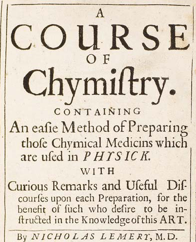 Title page of English translation of Cours de chymie (1675) by Nicholas Lemery.